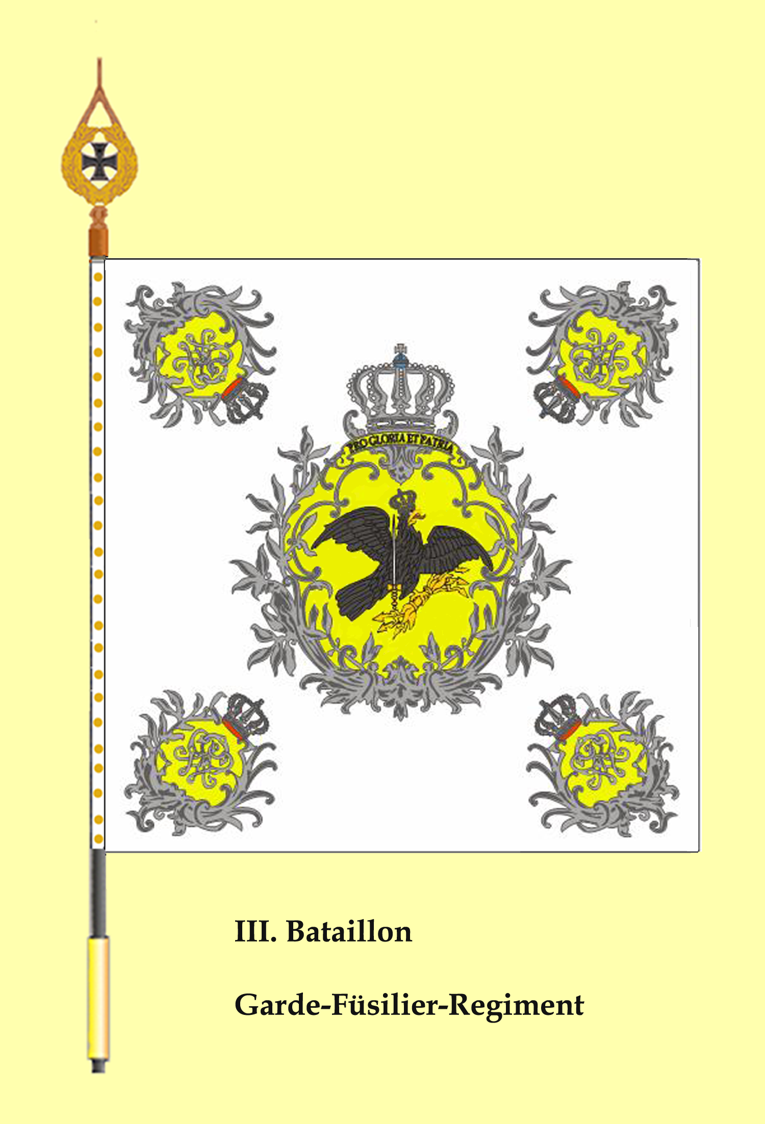 Colors of the 3rd Battalion of the prussian Regiment of the Fusilier Guards